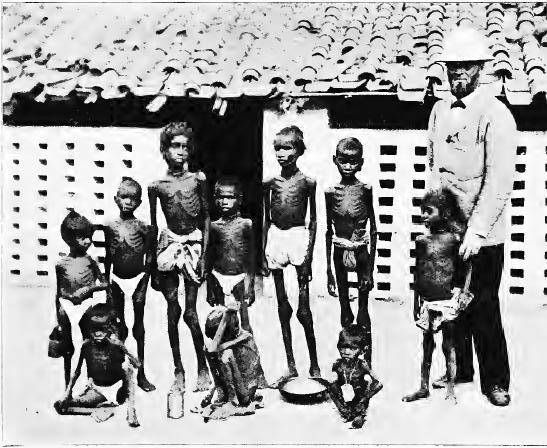 Famished children taken into care by missionaries in Indian town of Jabalpur C. P. 1897